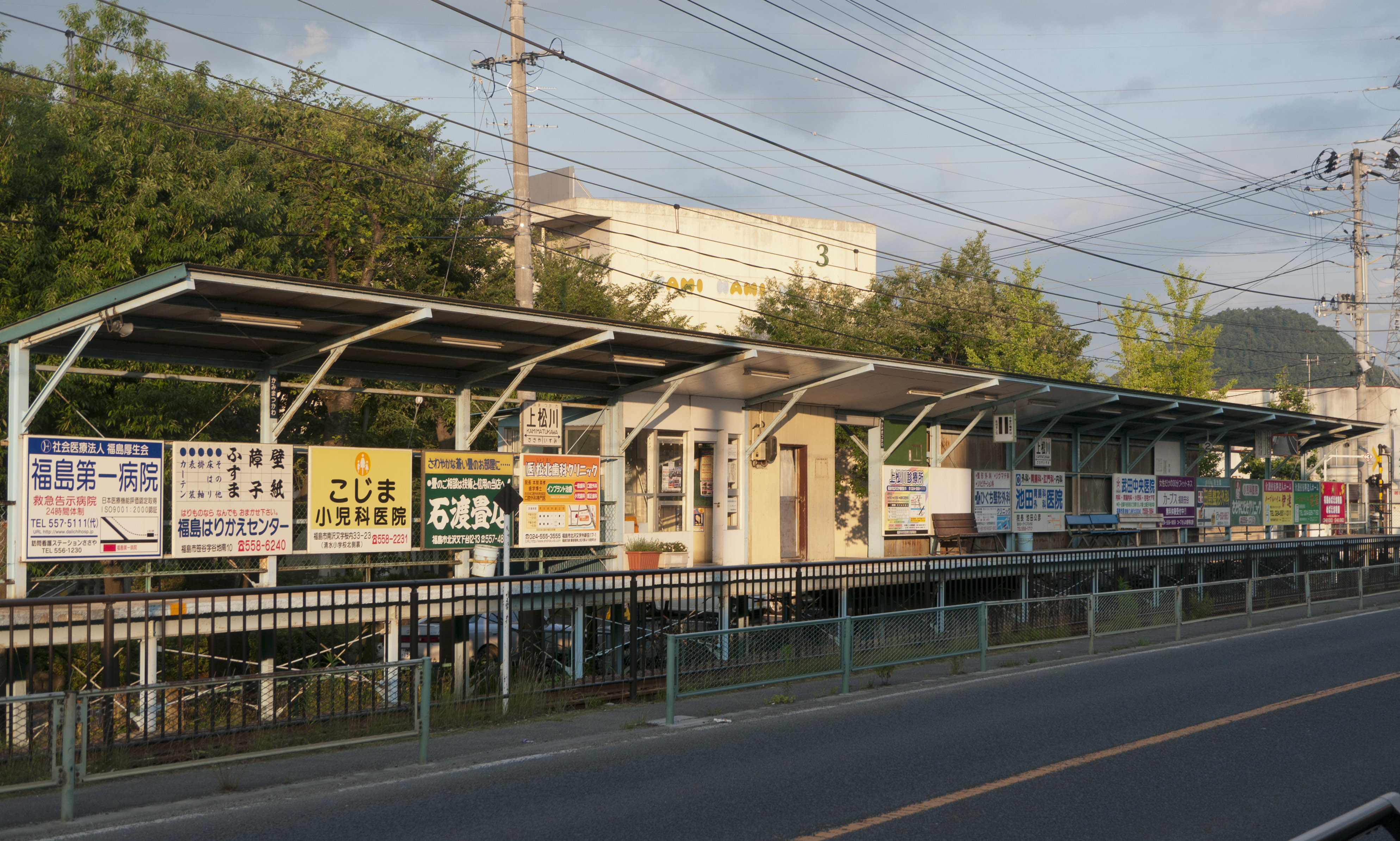 Fukushima Kotsu Iizaka Line Kamimatsukawa Station in Fukushima, Fukushima, Japan